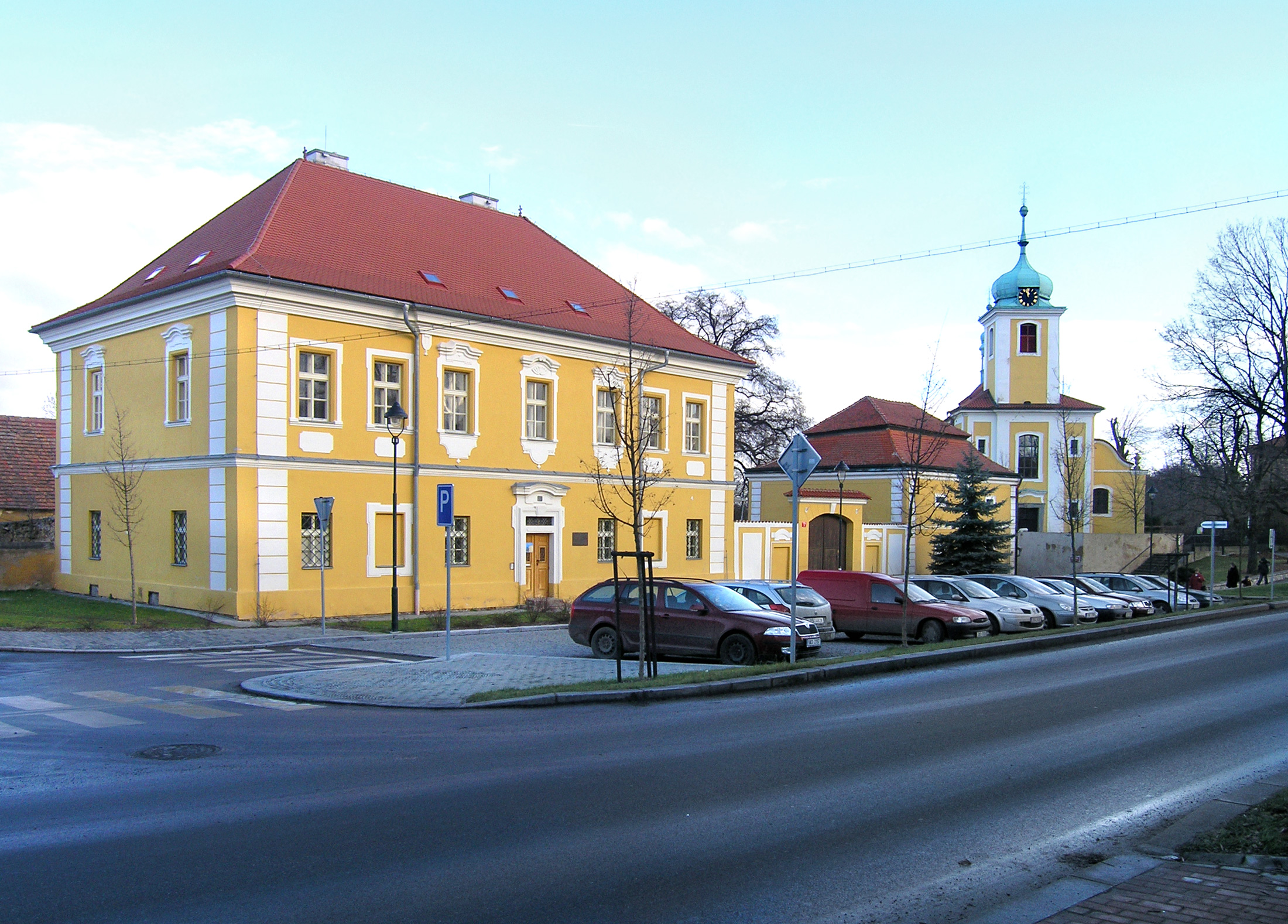 Exaltation of the Holy Cross church at Vinořské square in Vinoř, Prague